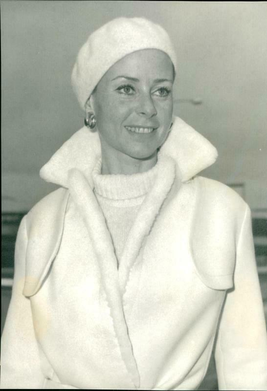 Genevieve Page, 1987